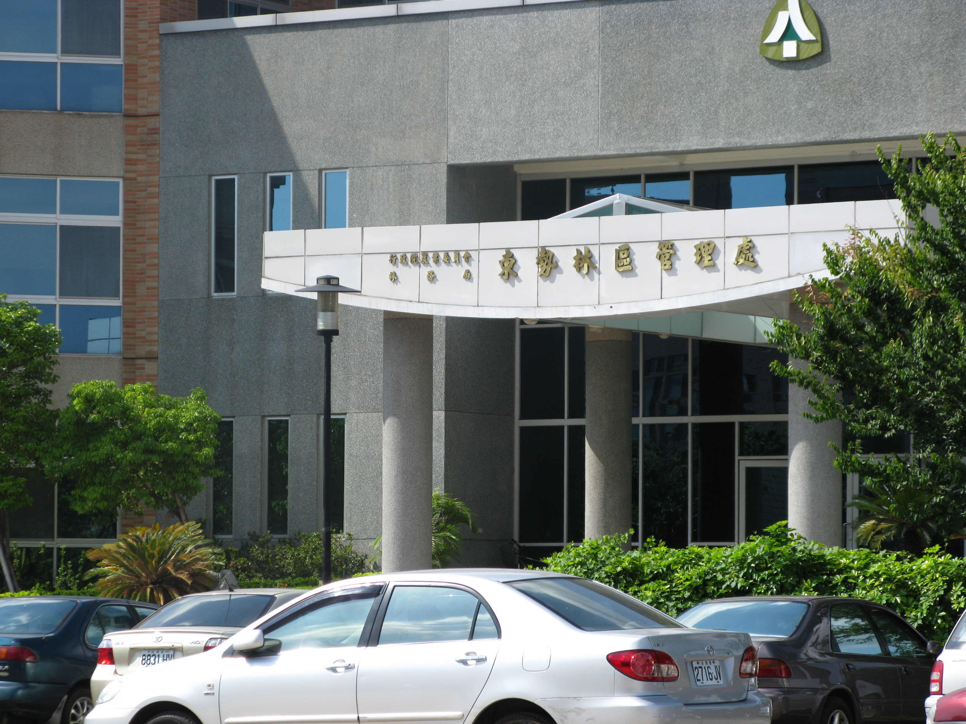 Tungshih Forest District Office, Forestry Bureau, COA. Located at Fengyuan District, Taichung City.